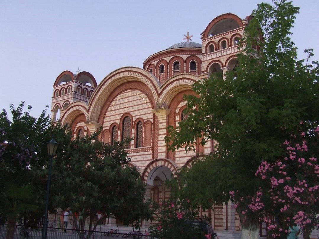 Saint George Church in Asprovalta